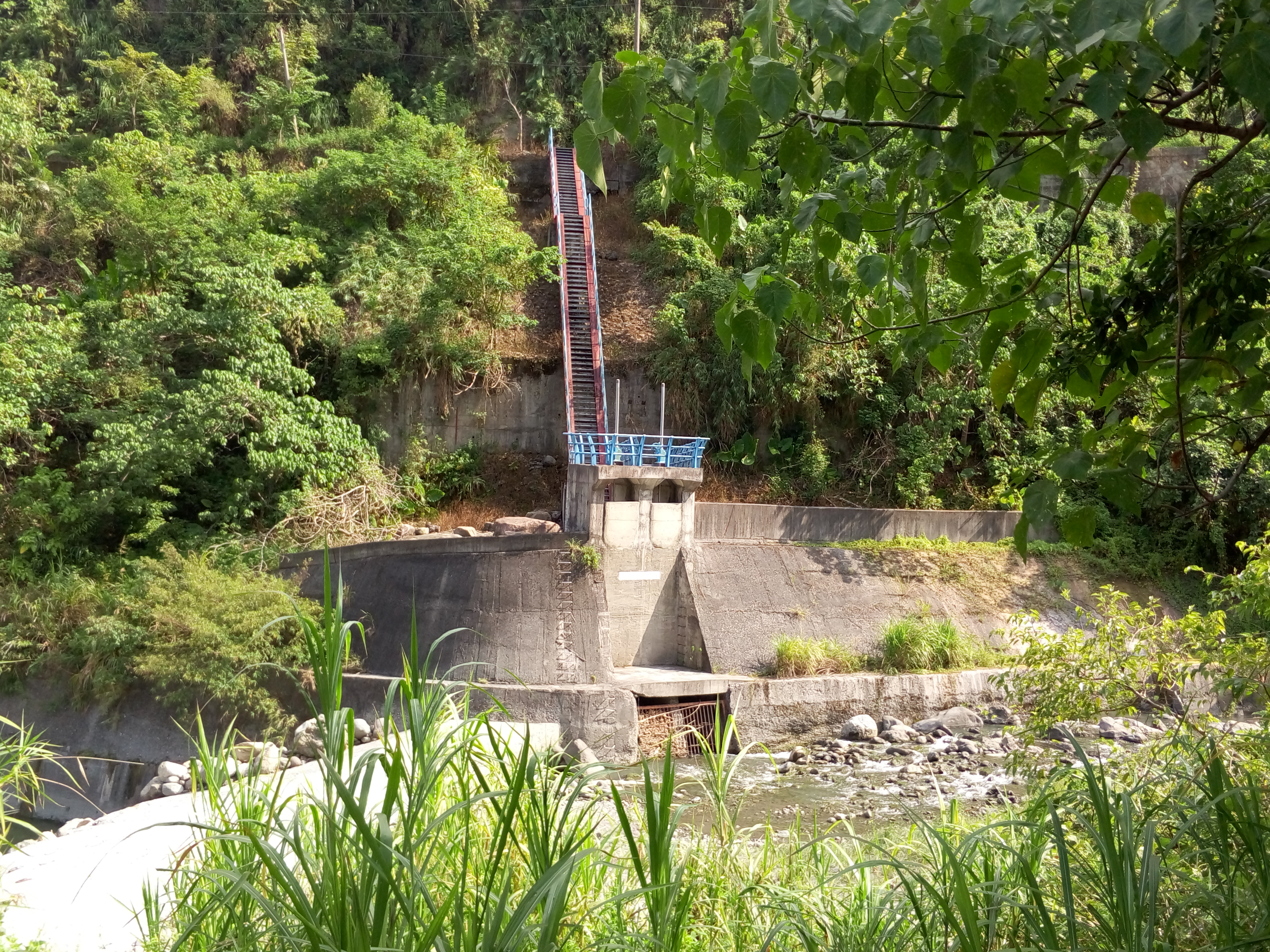 Taiwan Taitung County Cang-Bin Township Chang-Bin Waterway Intake